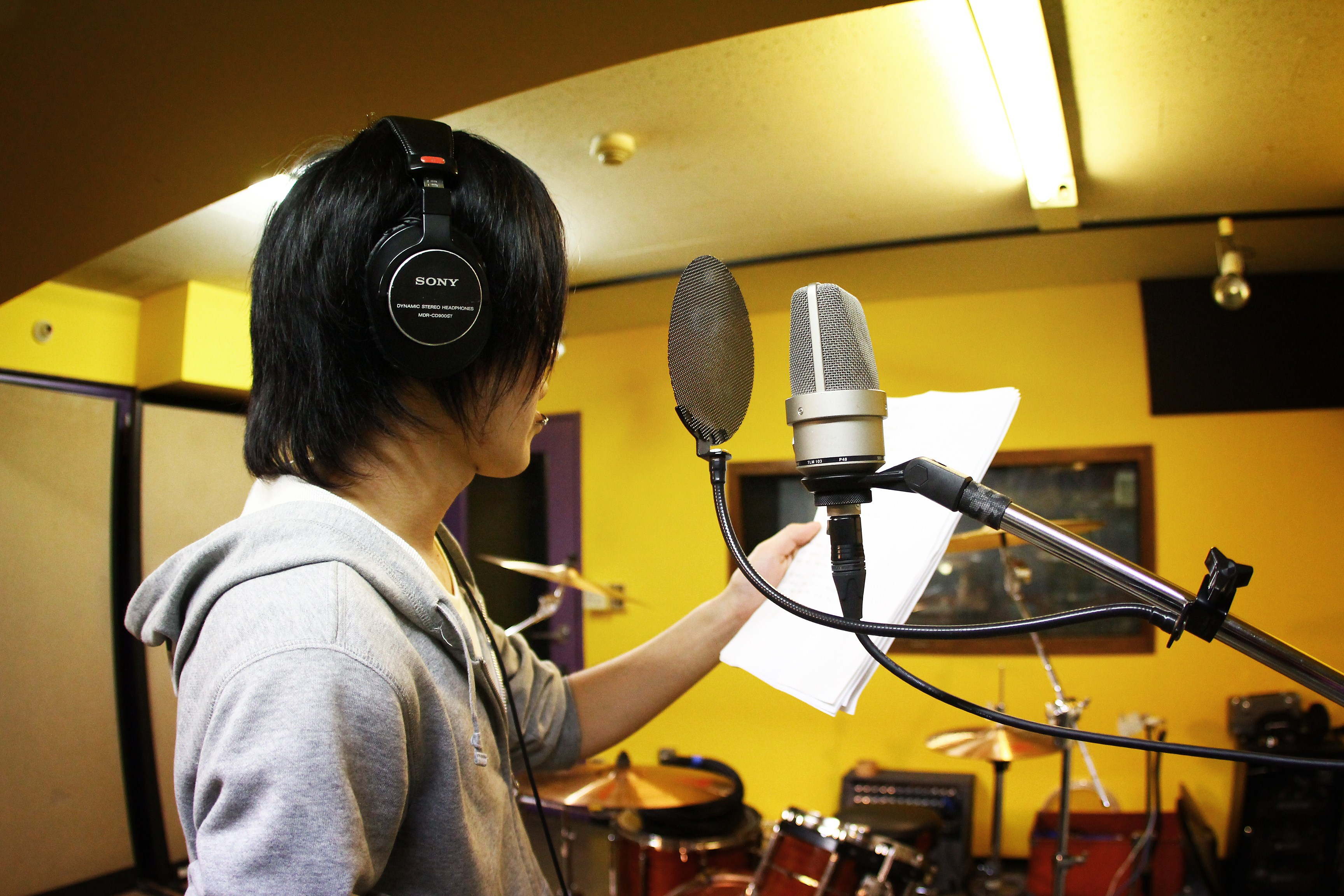 Pop Punk Band from Kanagawa Website Band Members : Ryuta, Nizamu, Raimu ------ Canon 550D with Tamron 17-50mm + Canon 15mm Fisheye F2.8 Follow me on Twitter Please do not use photos without permission